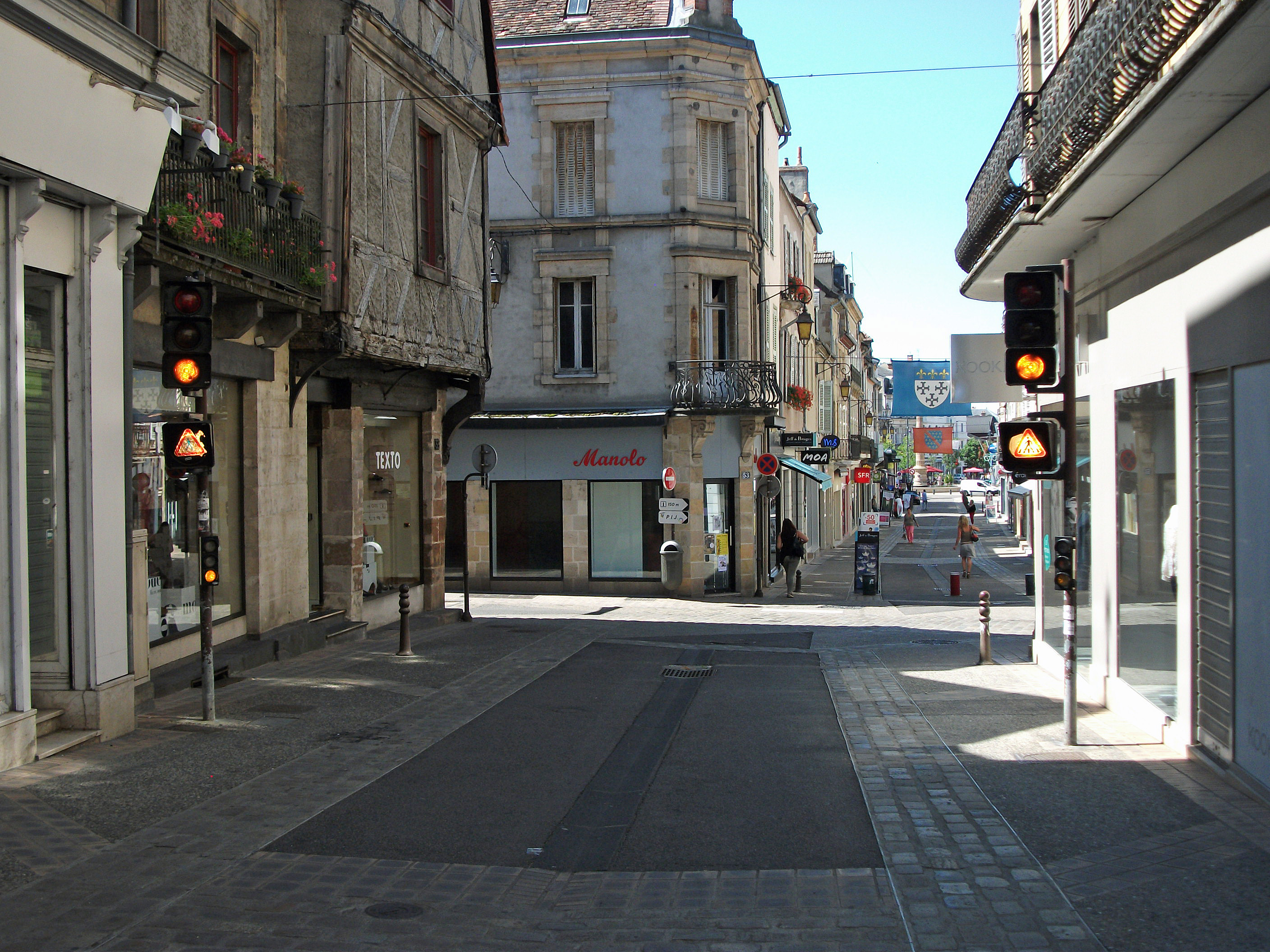 Rue d'Allier in Moulins: traffic lights (red / yellow / yellow) [8827]